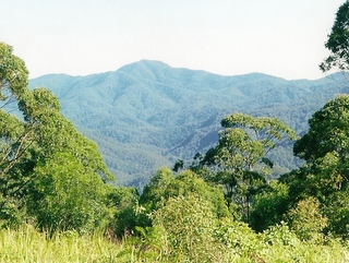 Banda Banda photographed from number 1 fire tower